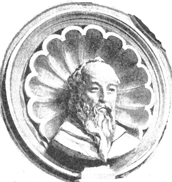 Sculpture of Abbot Božetěch as a part of a decoration of a house in Poříčí street in Prague